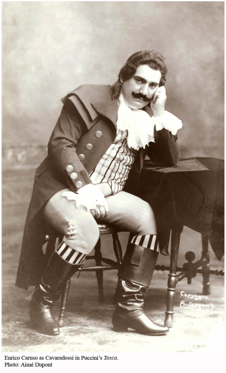 Enrico Caruso as Cavaradossi